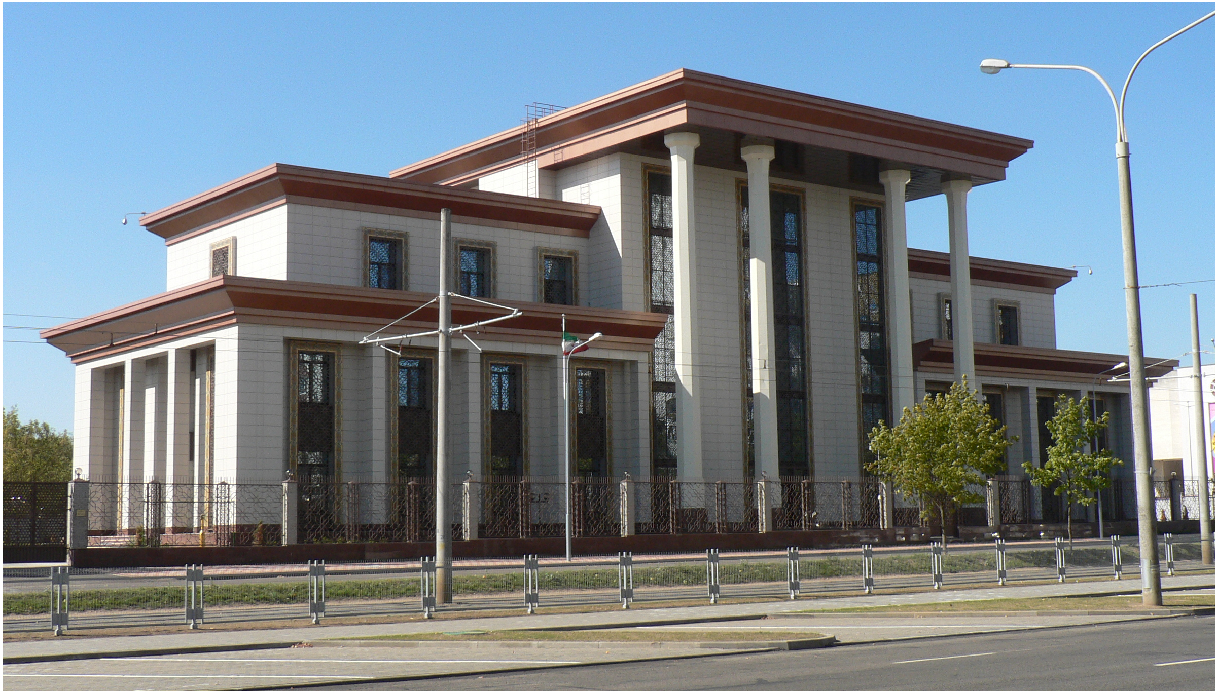 The Embassy of the Islamic Republic of Iran in Minsk, Belarus (Staravilienski Trakt 41, Minsk).